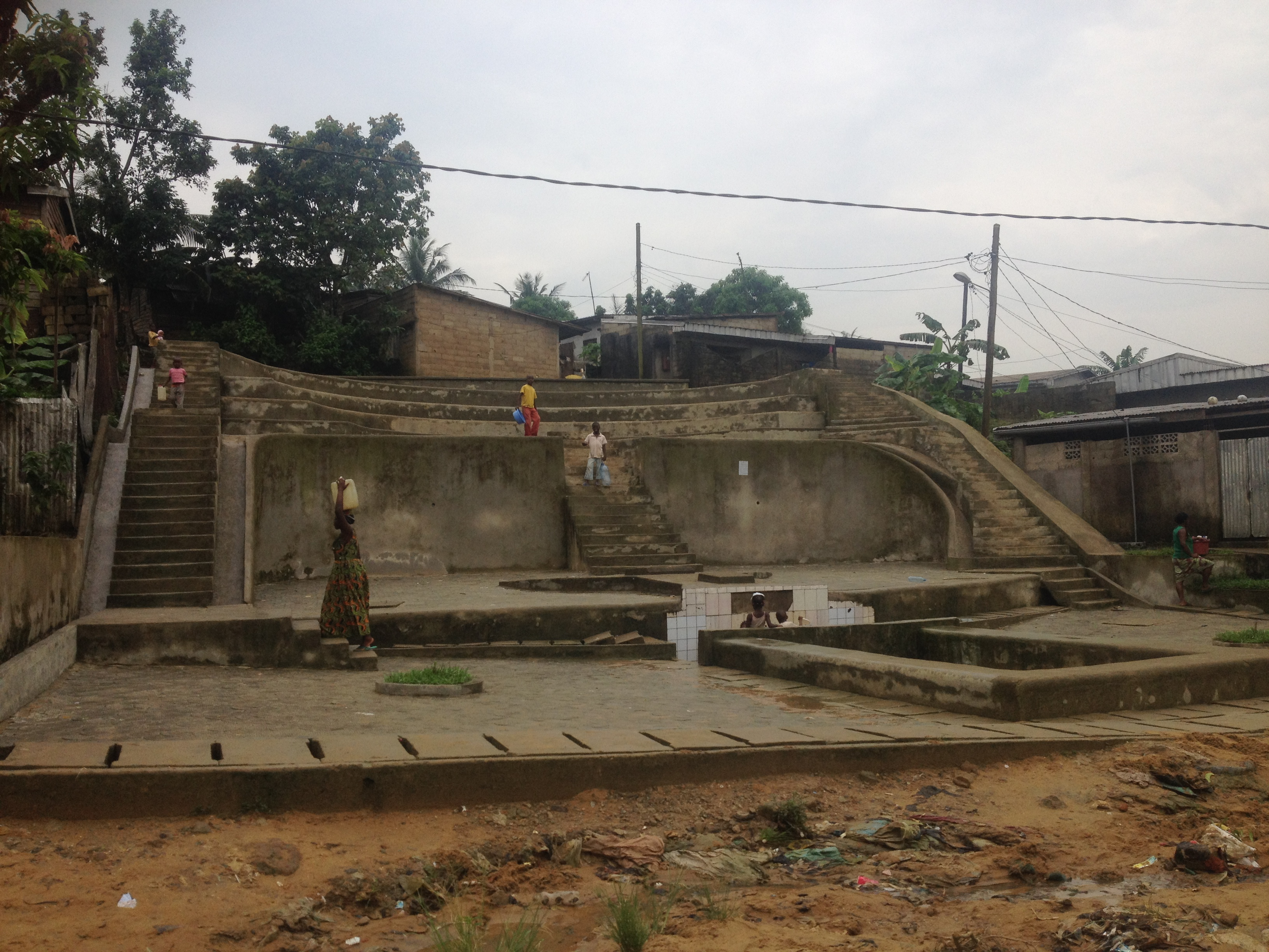 Philip Aguirre, Théâtre-Source 2013.